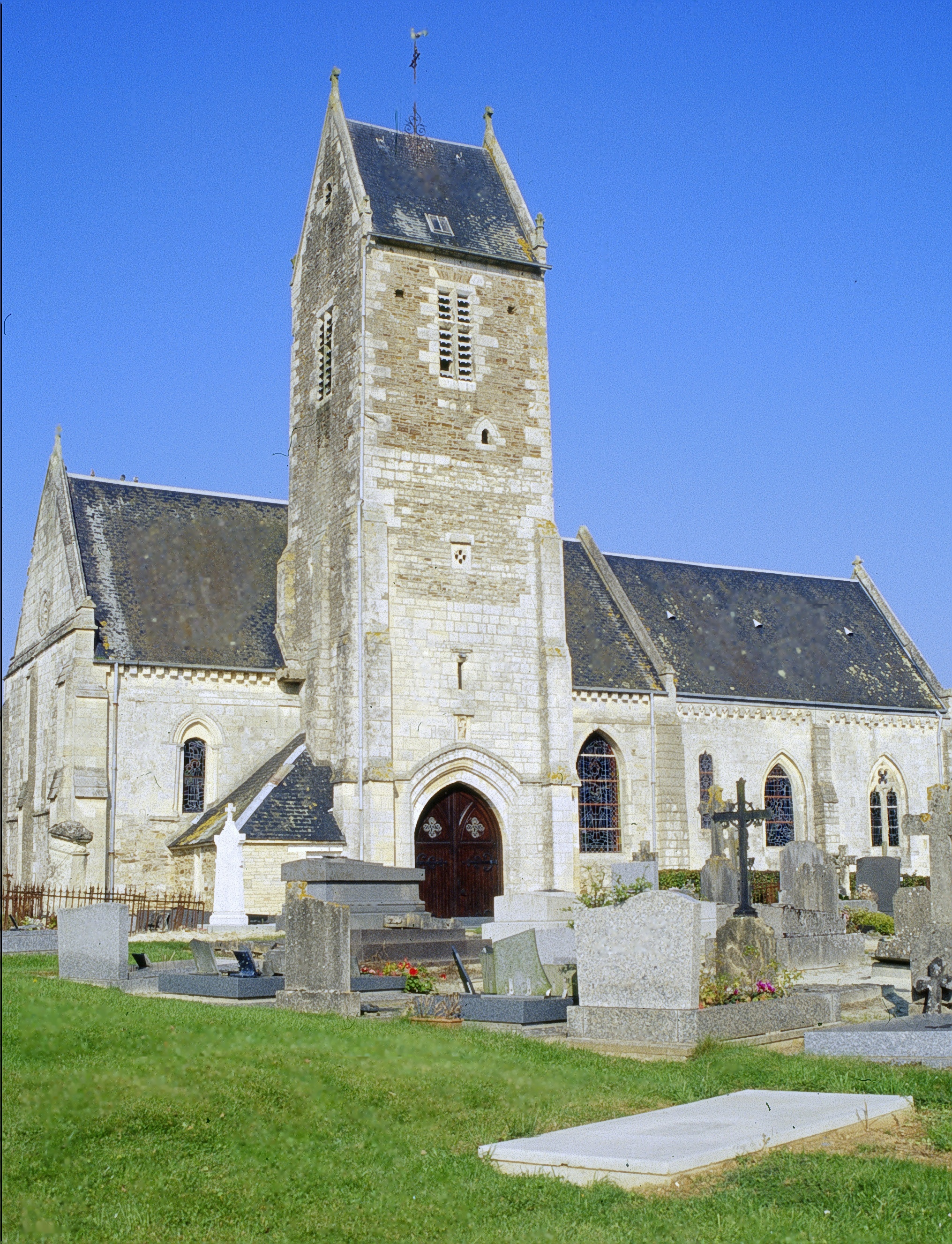 Church of Le Locheur (14)